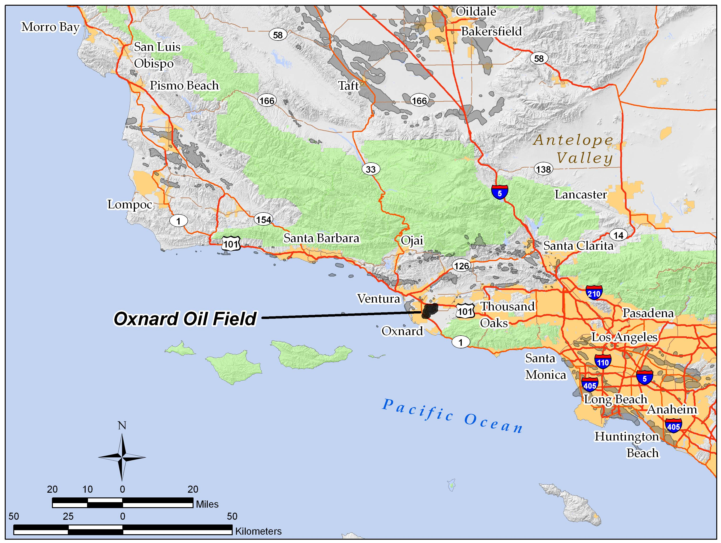 Location of Oxnard field, in ArcGIS 9.3, by self, GFDL/equiv